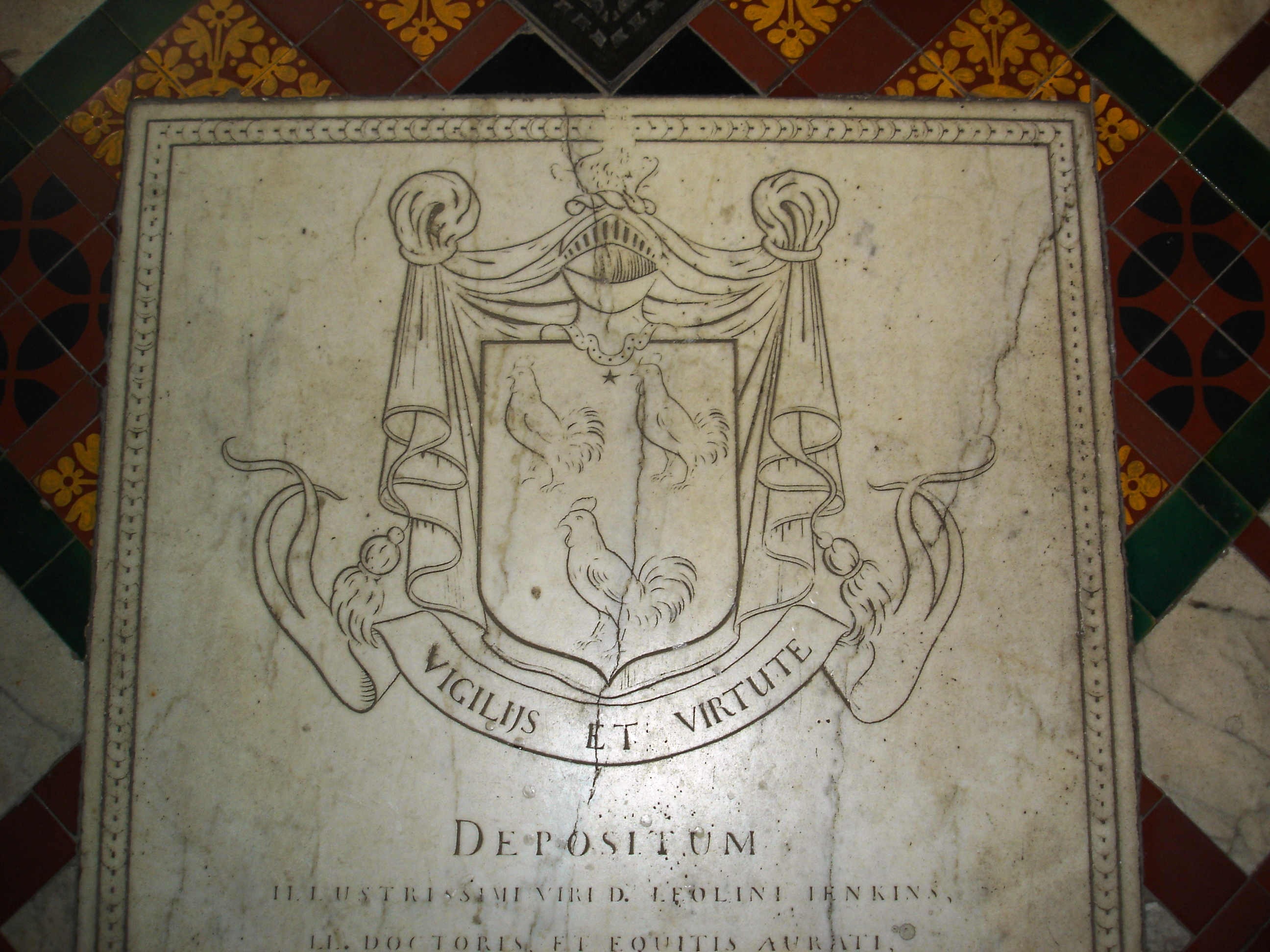 Ledger stone of Leoline Jenkins in the chapel of Jesus College, Oxford